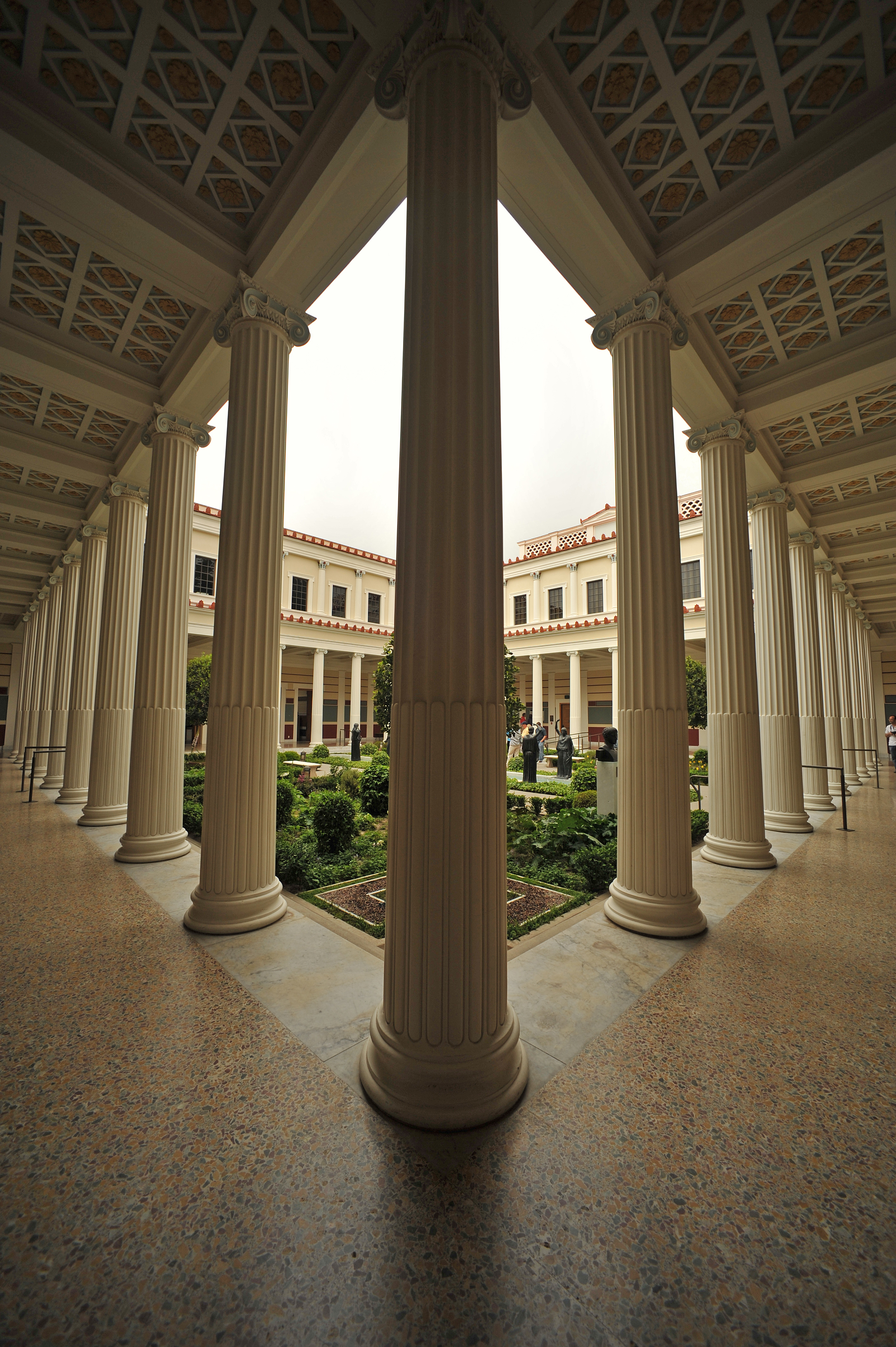 A sample photograph taken with the ultra-wide angle Nikon 13mm f/5.6 AIS Nikkor lens. Location: Getty Villa, Pacific Palisades, California.